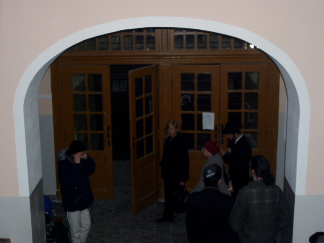 Jeszywas Chachmej Lublin